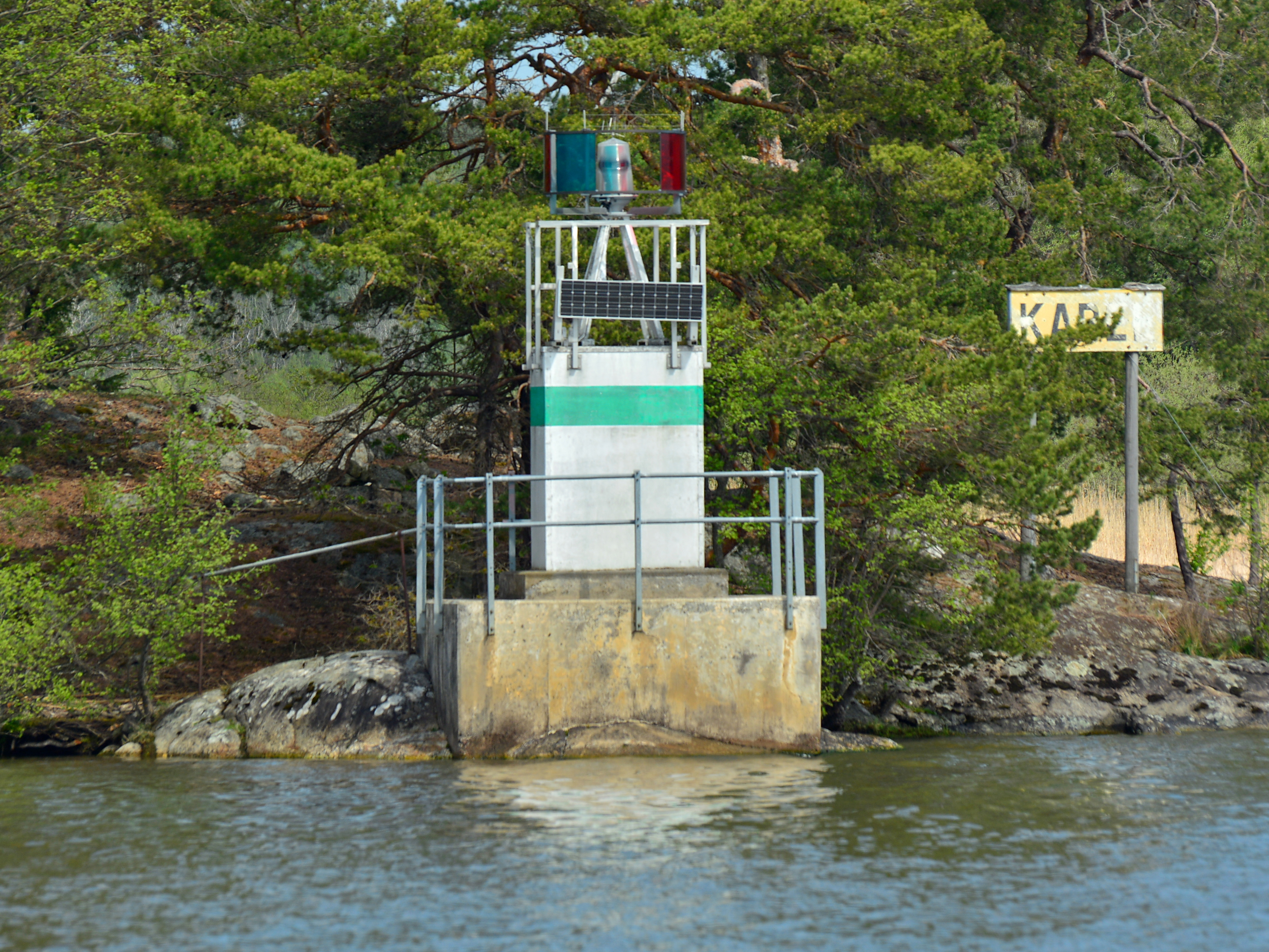 The lighthouse Flatgarn in lake Mälaren.